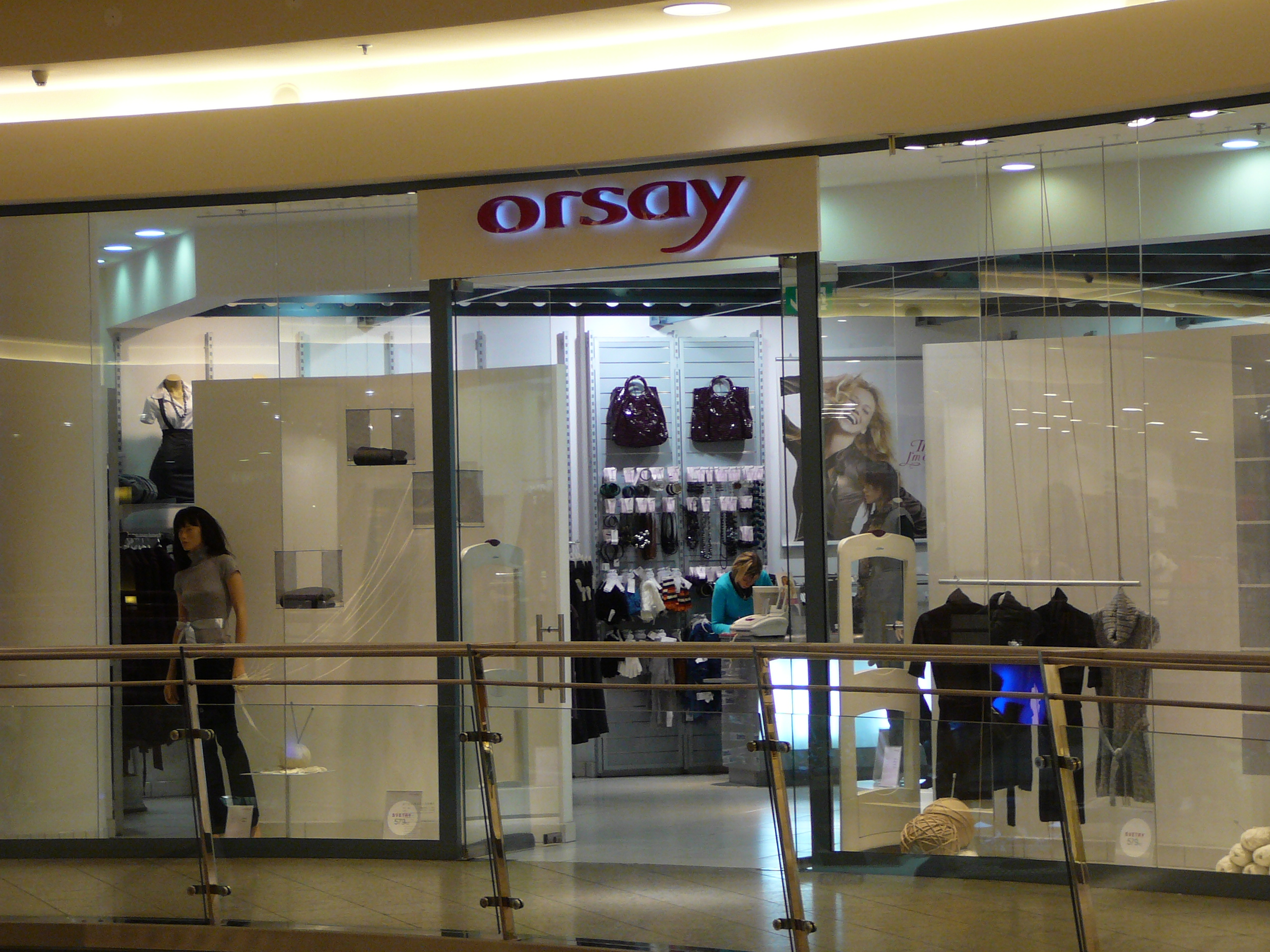 Orsay in Vaňkovka in Brno